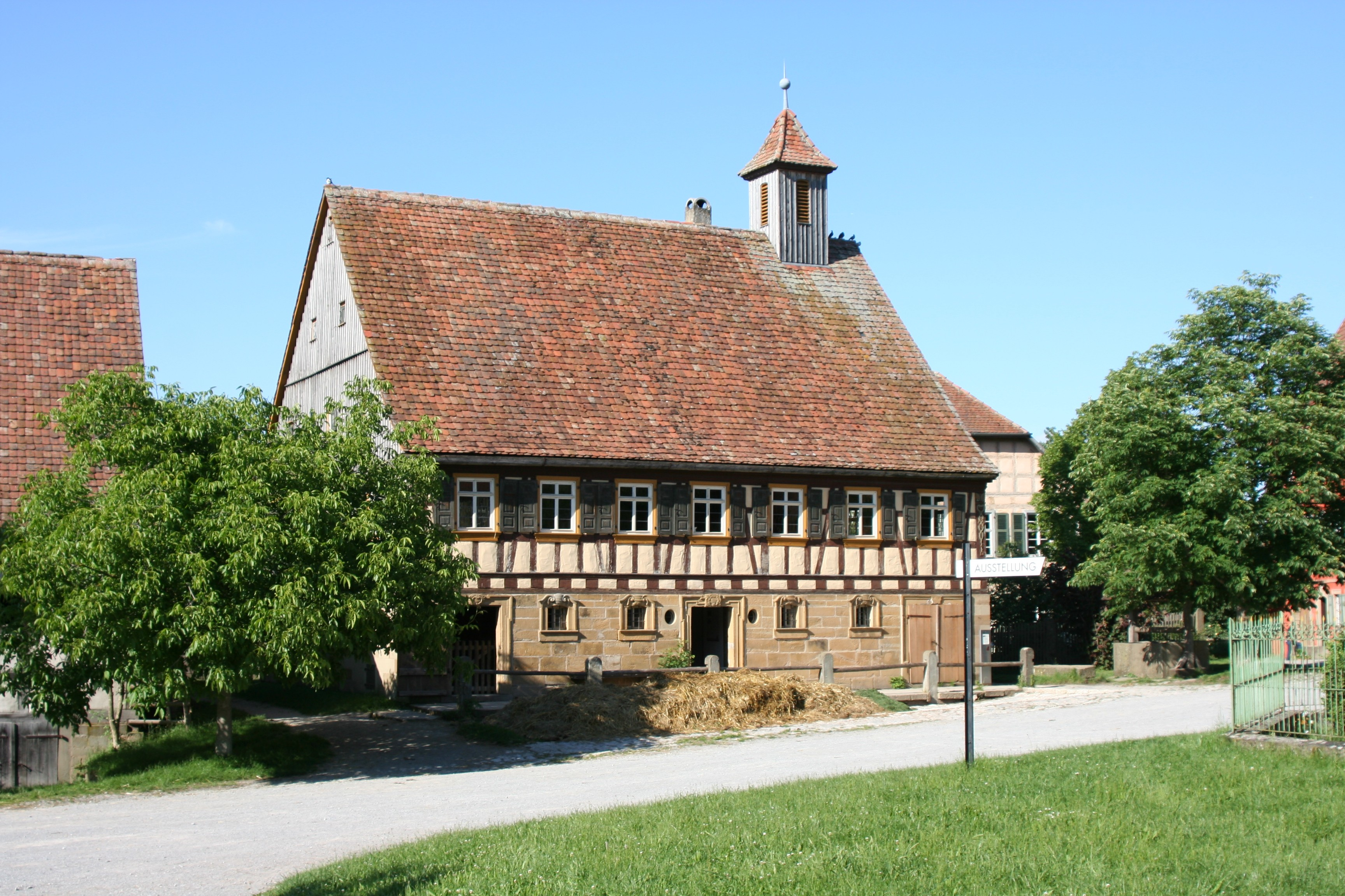 The Open Air Museum Wackershofen. House with barn from Elzhausen, municipality Braunsbach